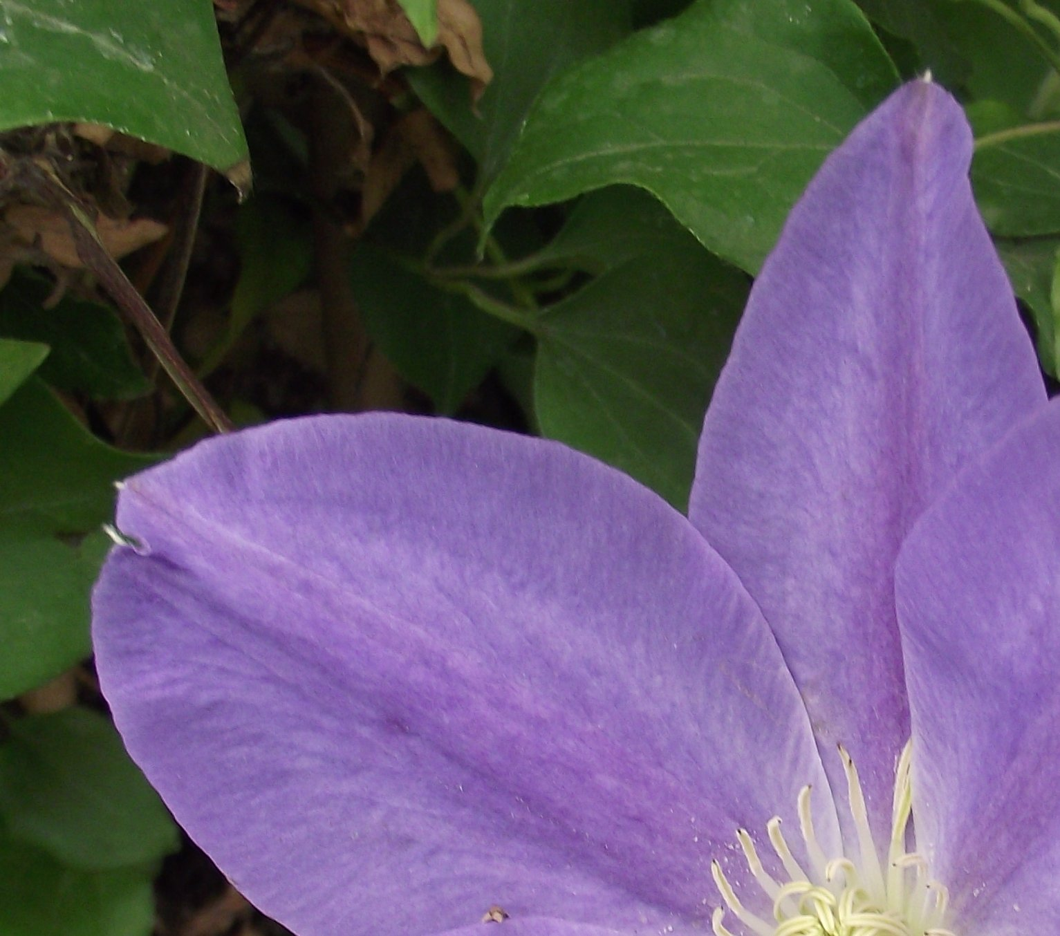 Clematis patens Diana's Delight Evipo026